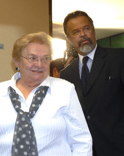 Luisa Erundina with federal deputy Raul Jungmann.